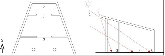 pôdorys a rez sokratovho domu